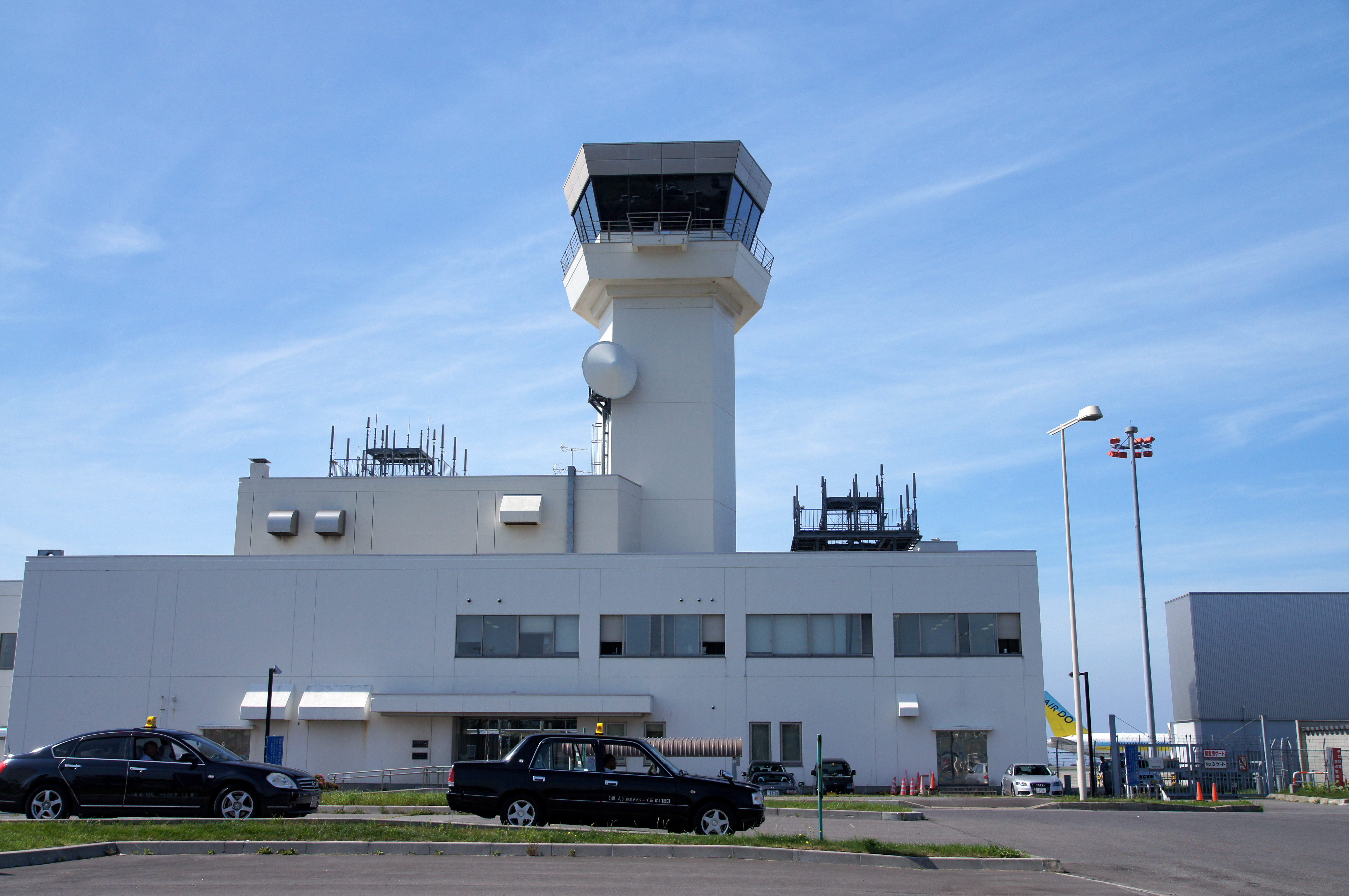 Hakodate Airport in Hakodate, Hokkaido prefecture, Japan